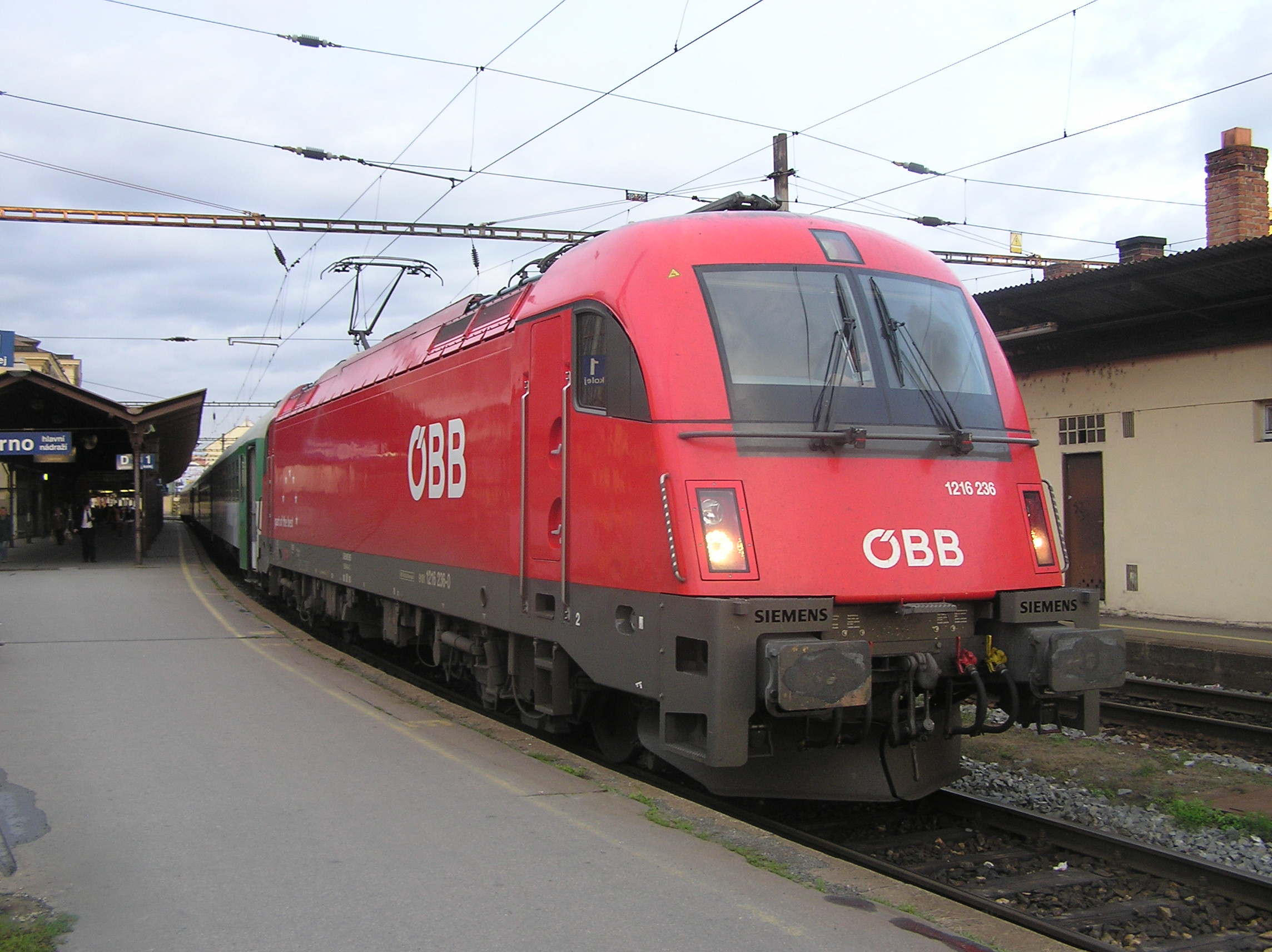 Electric multiple unit of the Österreichische Bundesbahnen at the station Brno - hlavní nádraží, Czech Republic